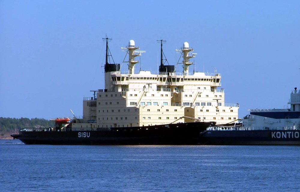 Icebreakers Sisu and Urho at Katajanokka, Helsinki, Finland in August 2004.